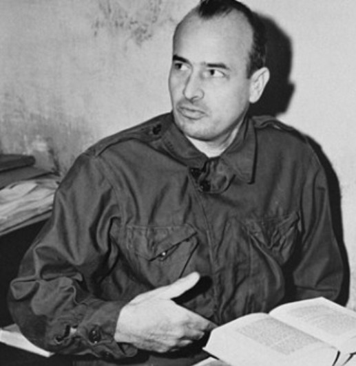 Defendant Hans Frank, the former Governor General of the Polish occupied territories, in his cell at the International Military Tribunal trial of war criminals at Nuremberg.